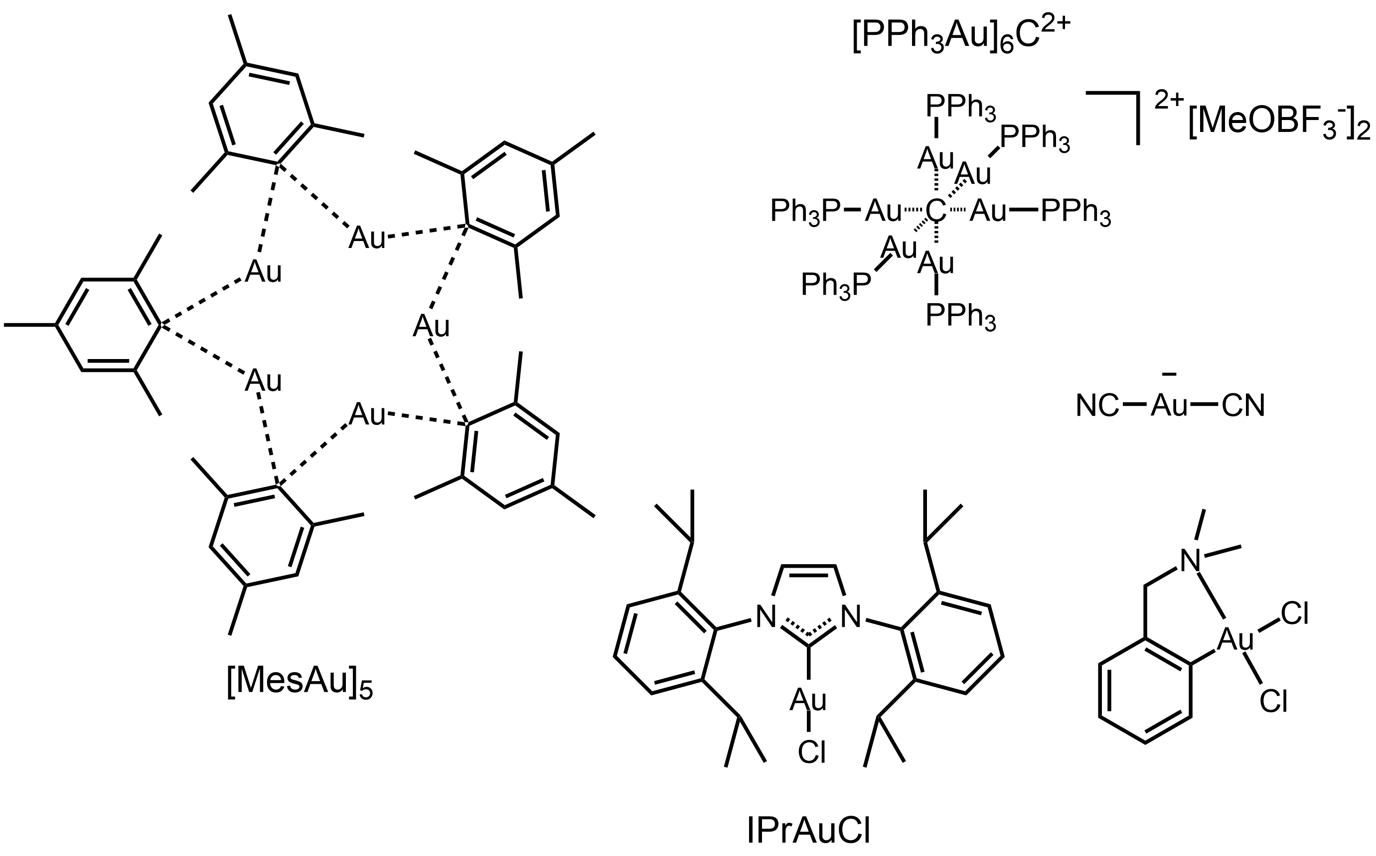 A collection of organogold compounds